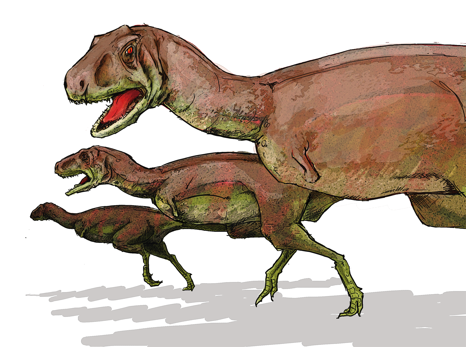 Aucasaurus was a medium-sized Argentinian theropod dinosaur of the Santonian stage. It was around 4 m (13 ft) long and 1 m (3 ft) high at the hip, weighing around 700 kg (1,500 lb); considerably smaller than the related Carnotaurus, although the arms were longer. It is the smallest known carnotaurine.